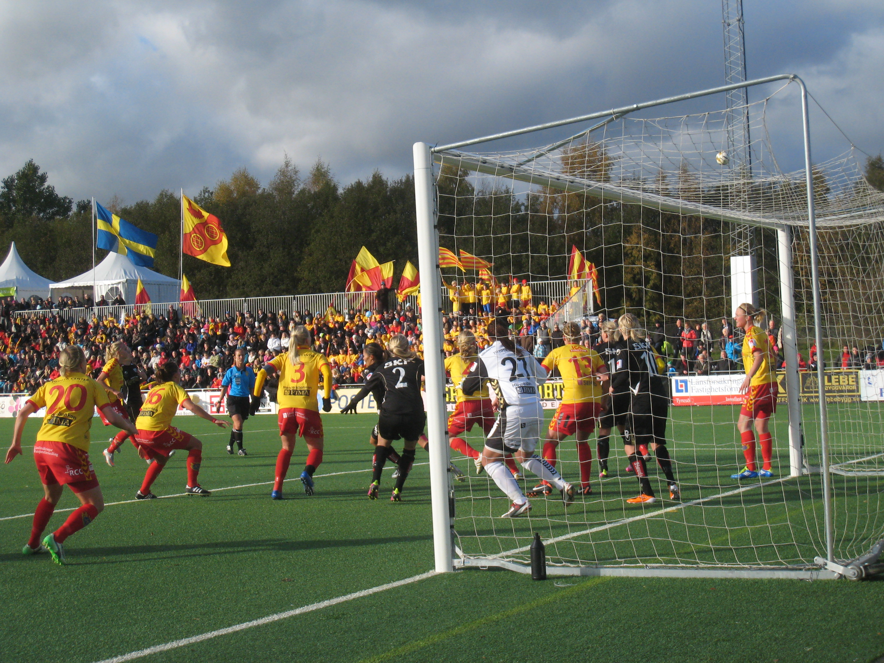 Tyresö FF versus Kopparbergs/Göteborg FC in Sweden's womens' football league